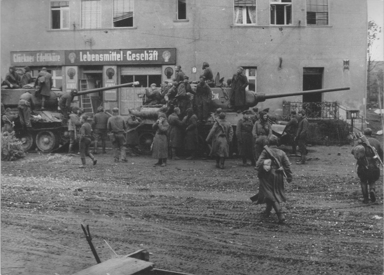 2rd Guards Tank Army in the Berlin operation 1945